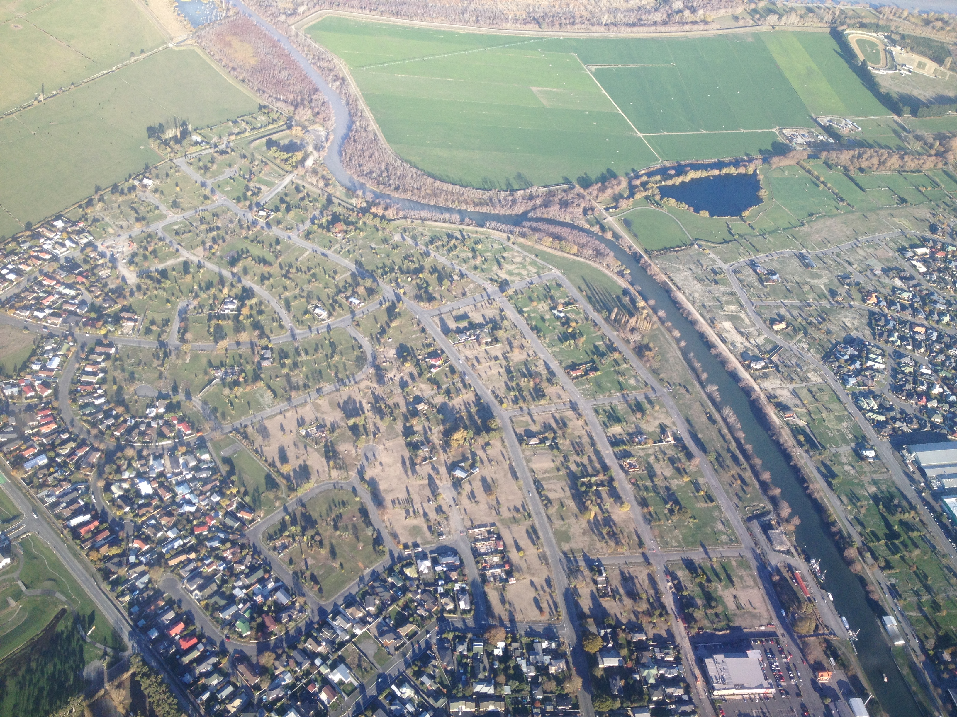 Aerial view of the residential red zone in Kaiapoi in May 2015.